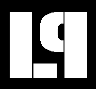 Linkin Park acronym